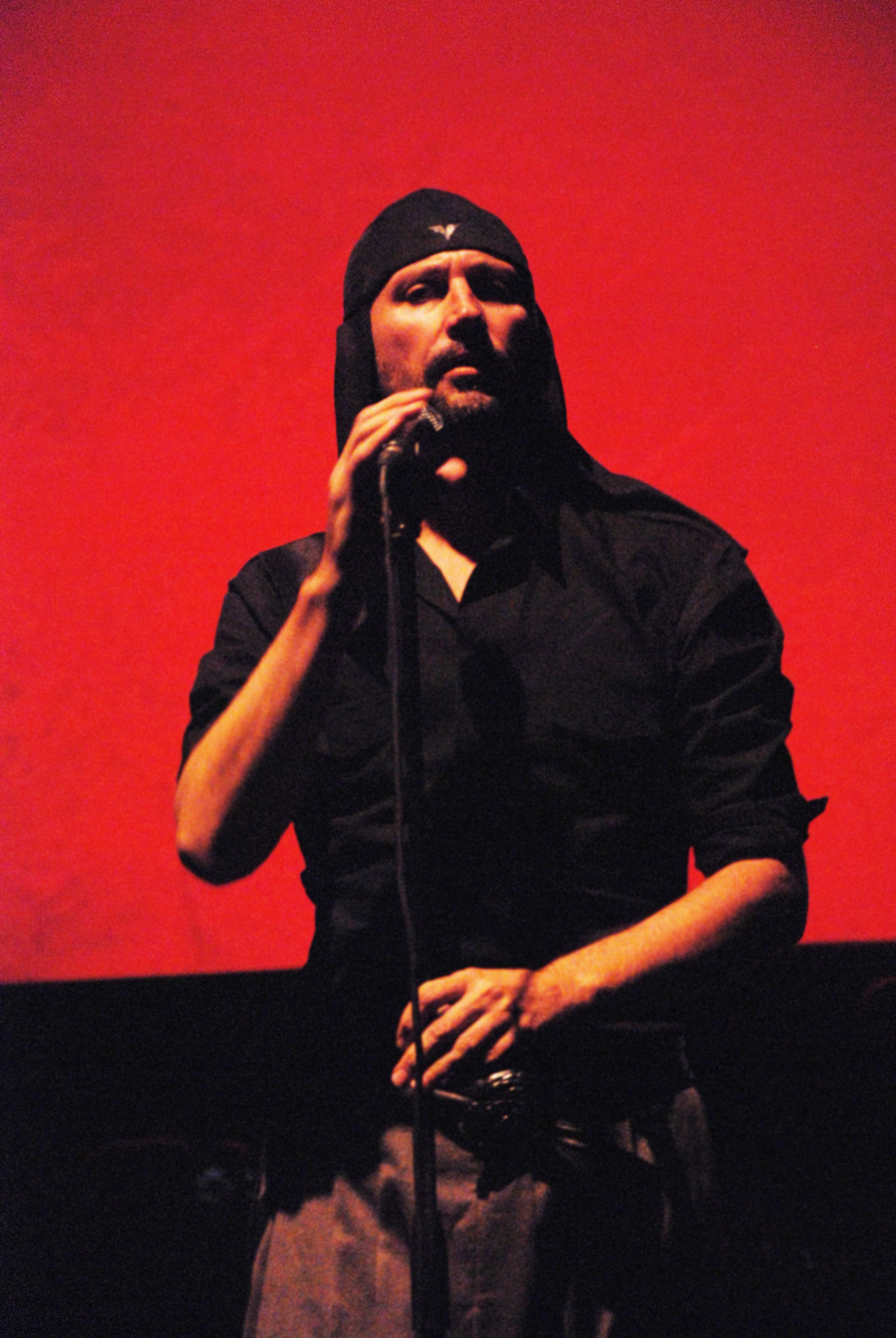 Milan Fras, vocal; Laibach performing in Koper, Slovenia, last concert of Volk Tour, at october 18., 2008.